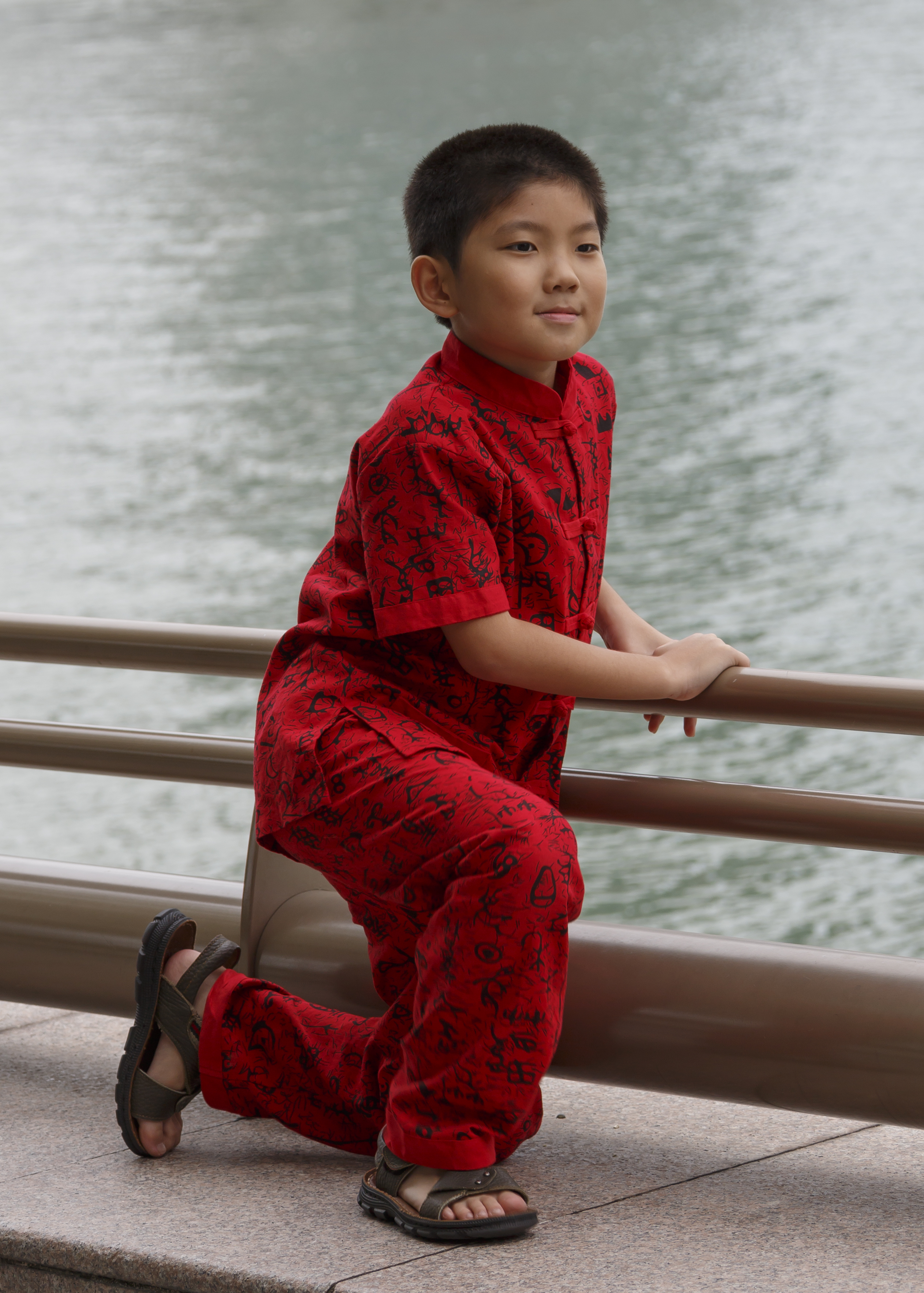 Singapore: On occasion of Chinese New Year, a chinese child is wearing red clothing at The Float@Marina Bay.